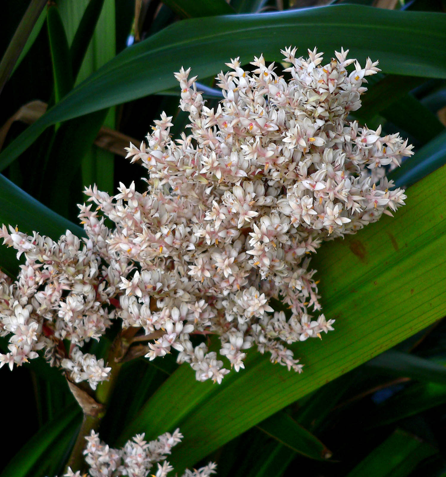 Photo of Helmholtzia glaberrima at the San Francisco Botanical Garden